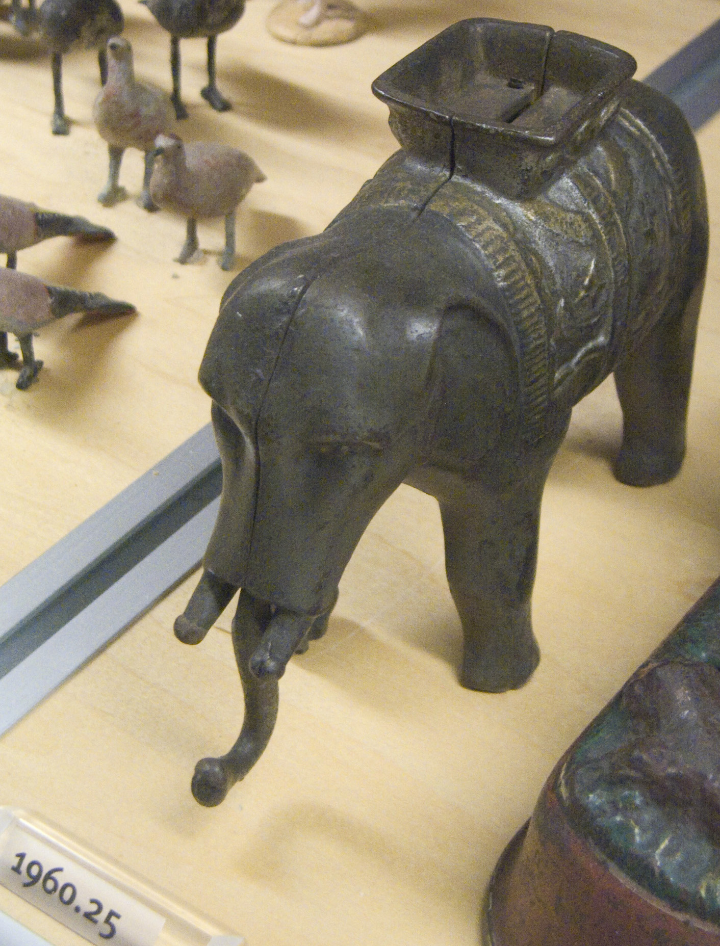 Semi-mechanical elephant bank, ca.1880-1920. Iron, paint: 4 5/8 x 7 x 2 1/4 in. ( 11.7 x 17.8 x 5.7 cm ). New-York Historical Society, Gift of Mrs. Mary R. Reynolds, 1960.25. Wikipedia Loves Art at the New-York Historical Society This photo of item # [1] at the New-York Historical Society was contributed under the team name "The_Grotto" as part of the Wikipedia Loves Art project in February 2009. New-York Historical Society The original photograph on Flickr was taken by cjn212—please add a comment to the original Flickr page whenever a use has been made on Wikipedia or another project. Project galleries on Flickr: this institution, this team